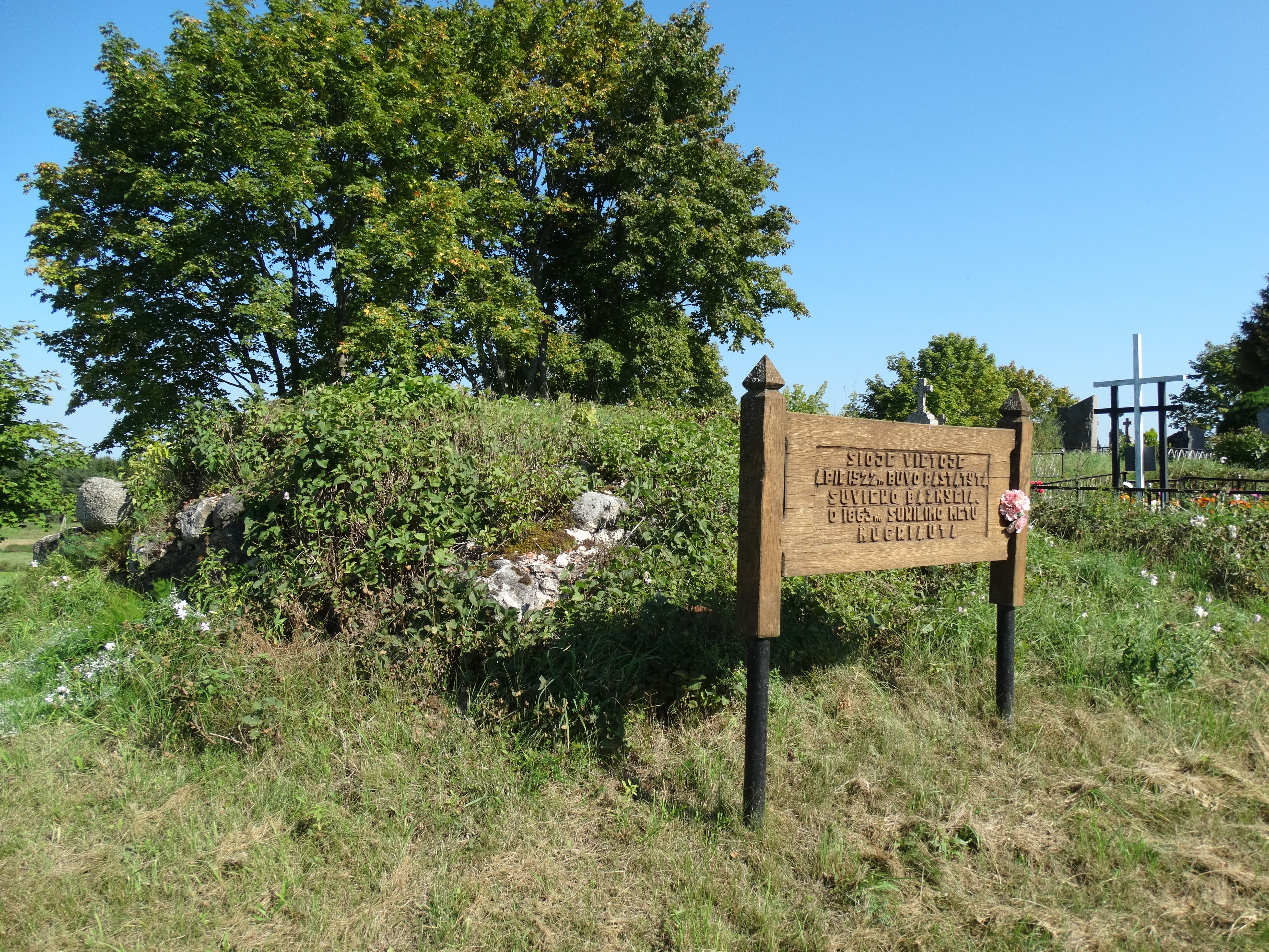 Suviekas, Zarasai District, Lithuania